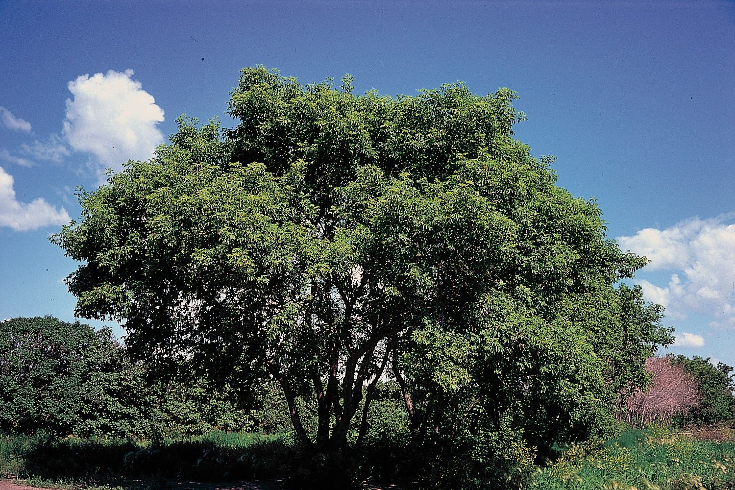 Boxelder, Manitoba Maple. Tree. ND, USA.